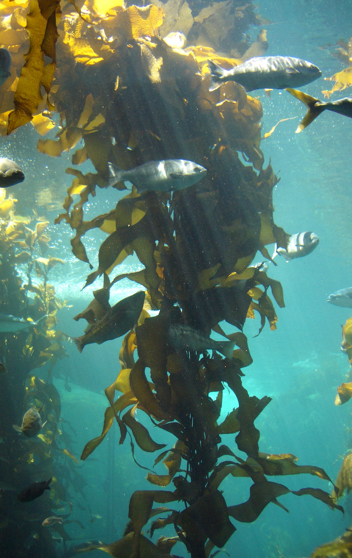 The kelp forest exhibit at the Monterey Bay Aquarium